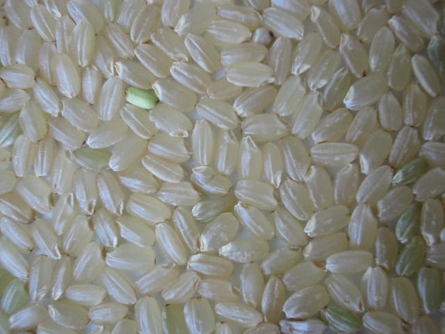 Hulled rice of "Hinohikari" - a variety of Japanese short-grain rice.